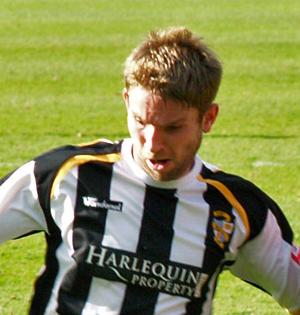 John McCombe close-up